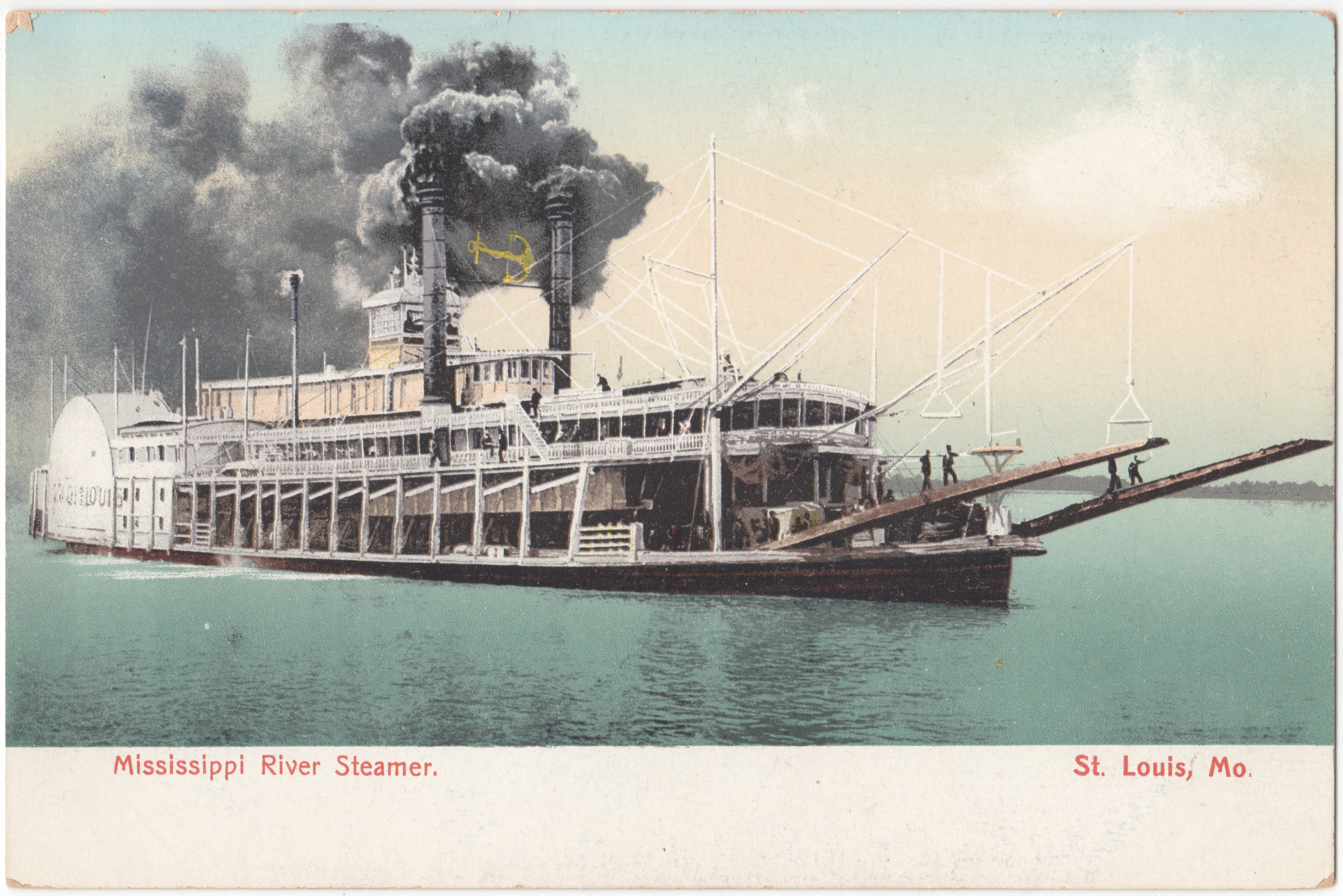 Postcard of City of St. Louis Anchor Line steamboat, before 1903. Published by St. Louis News Company, St. Louis, Missouri.